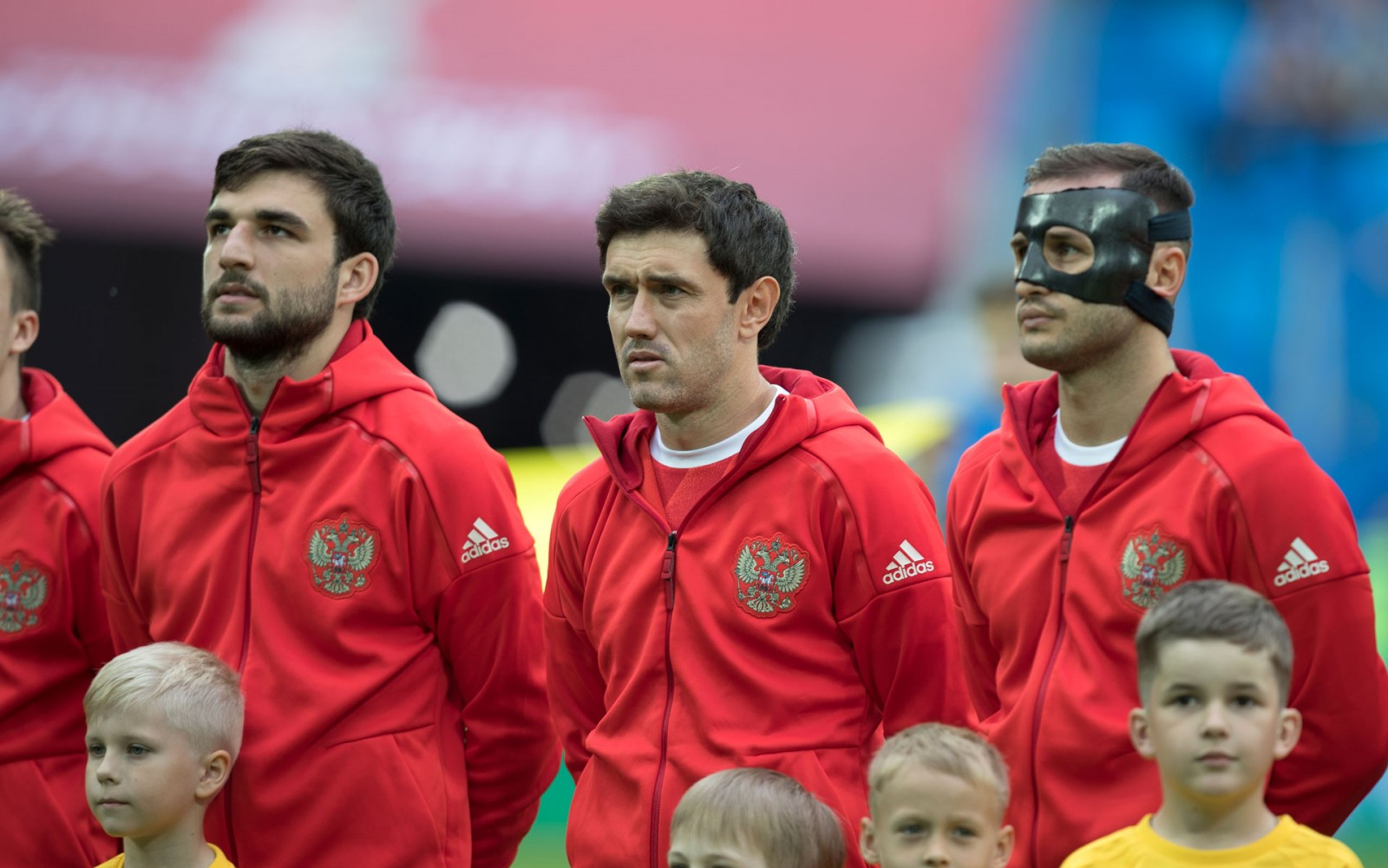 Georgi Dzhikiya Yuri Zhirkov Feodor Kudryashov